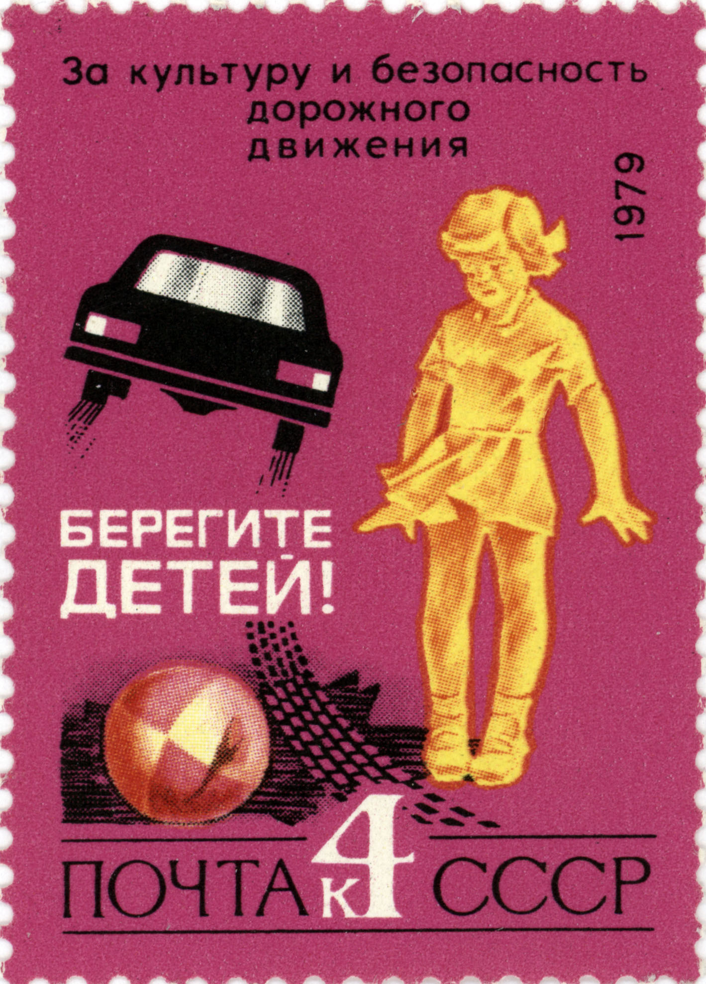 1979 USSR stamp.Road safety. Children on the road